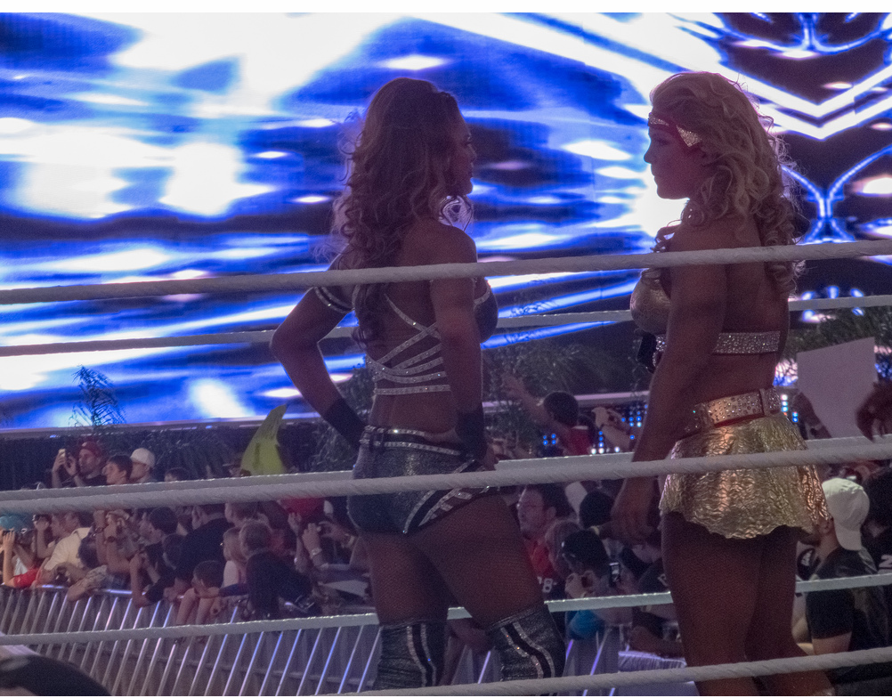 Eve with Beth Phoenix at WM 28.